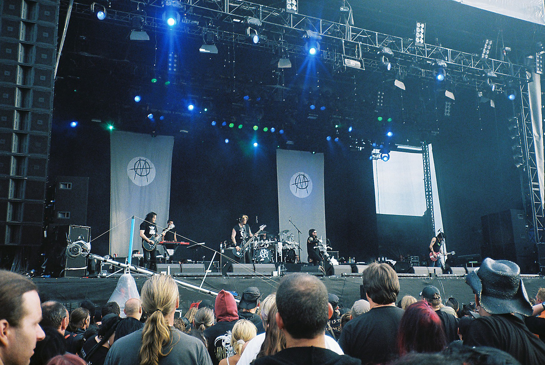 Auftritt von MINISTRY auf dem Mera Luna Festival 2006 : MINISTRY at the Mera Luna Festival 2006 Source: own work Date: Aug 2006, Hildesheim, Germany Author: Maschinenjunge Licence: GFDL, cc-by 3.0